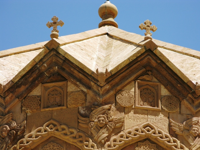 Saint-Stepanos Monastery, Iran.